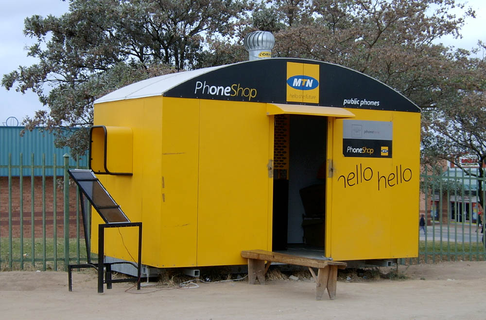 Please cite Ken Banks